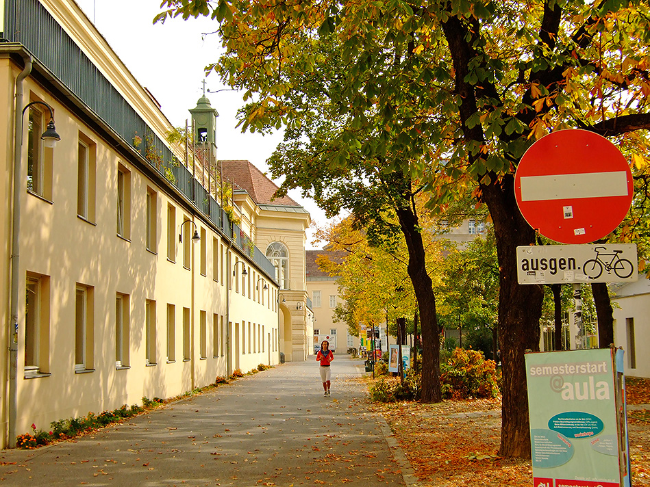 University of Vienna